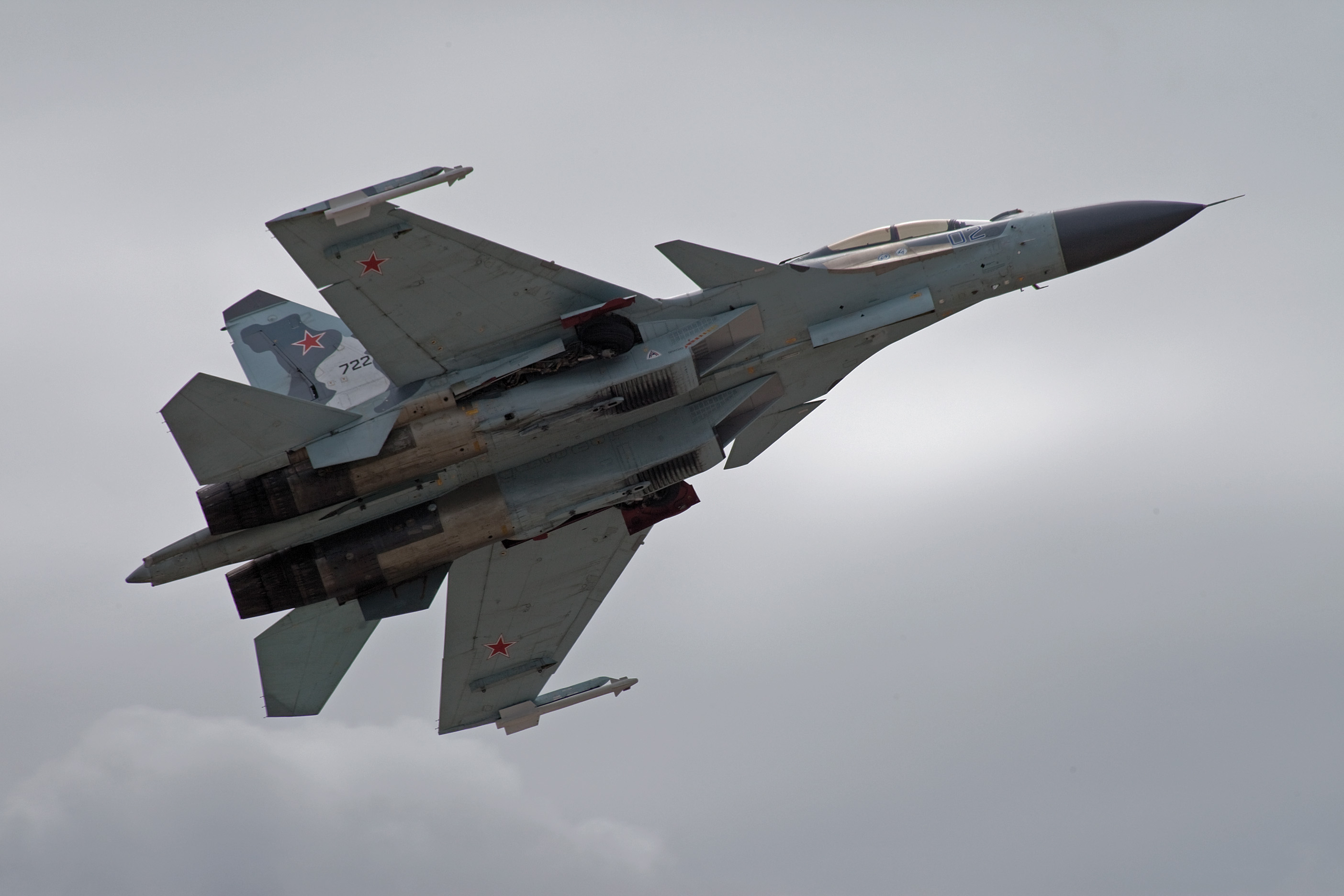 MAKS Airshow 2009 flyover.